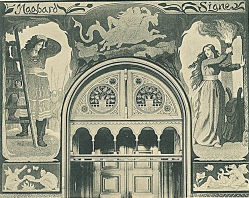 Drawing by Malthe Engelsted of tappestry in Copenhagen City Hall by Dagmar Olrik to design by Lorenz Frølich